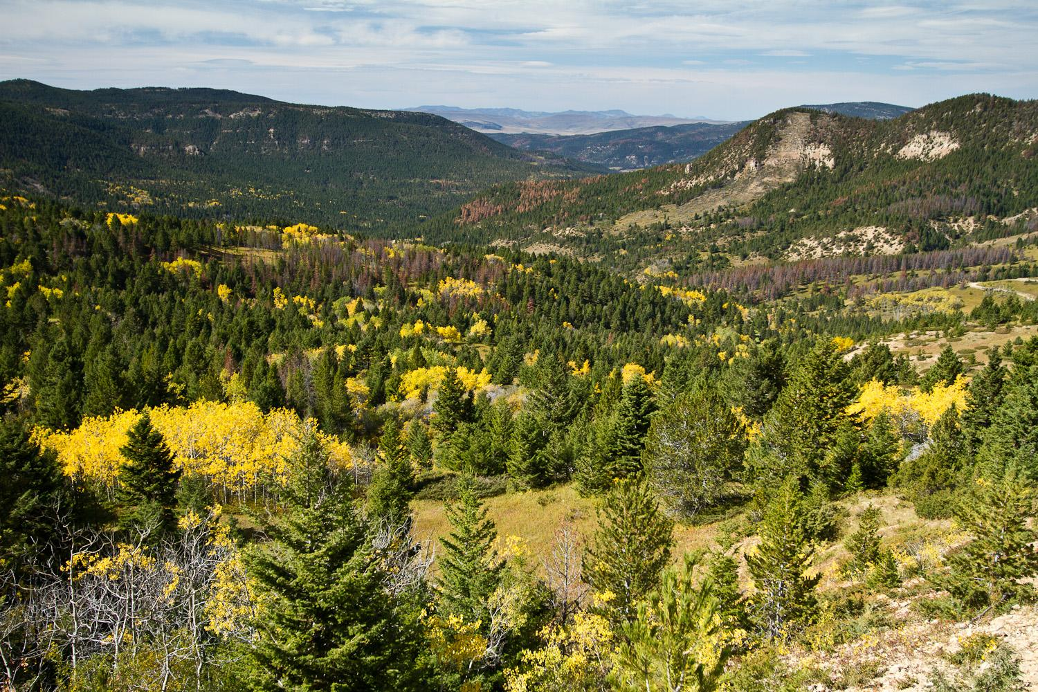 Tenderfoot Creek and Environs Photograph attribution: US Forest Service Photograph